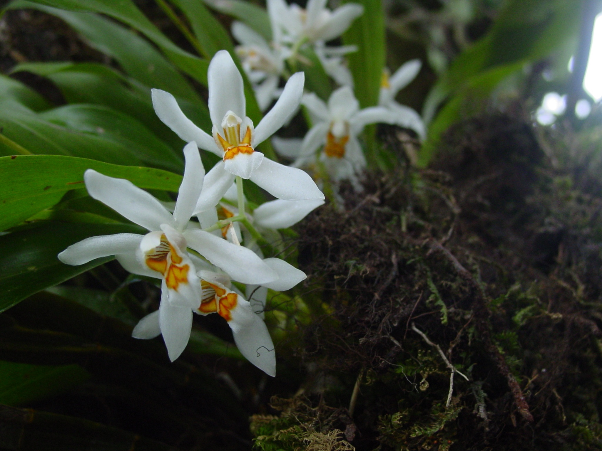 Photo of white orchids from Kurseong, Darjeeling, West Bengal, India